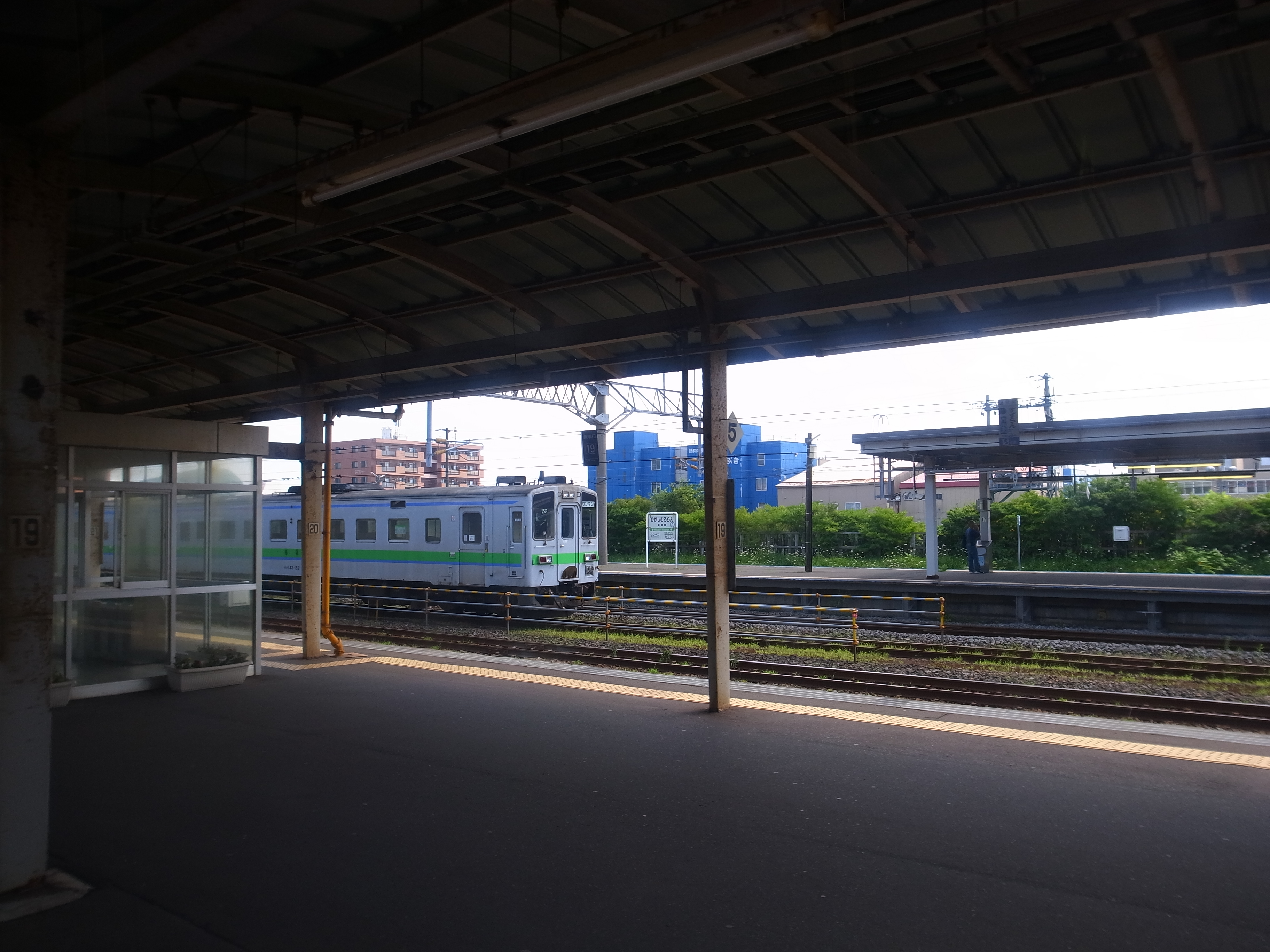 Higashi-Muroran Station platform (東室蘭駅のホーム)